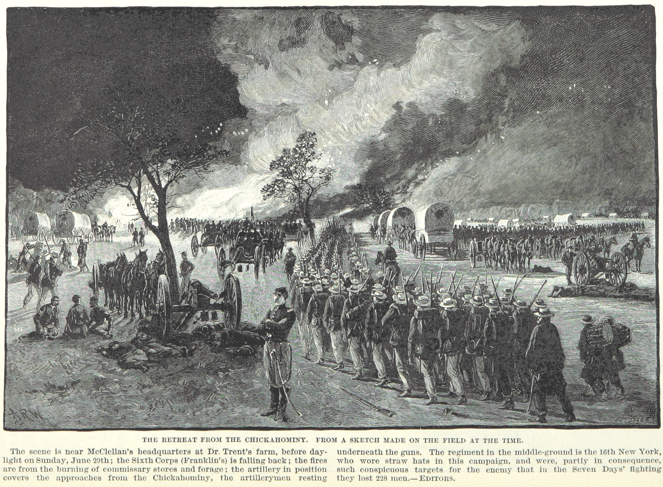 The Union retreat after the Battle of Gaines's Mill. In the center is the 16th New York Volunteer Infantry Regiment, wearing distinctive straw hats.